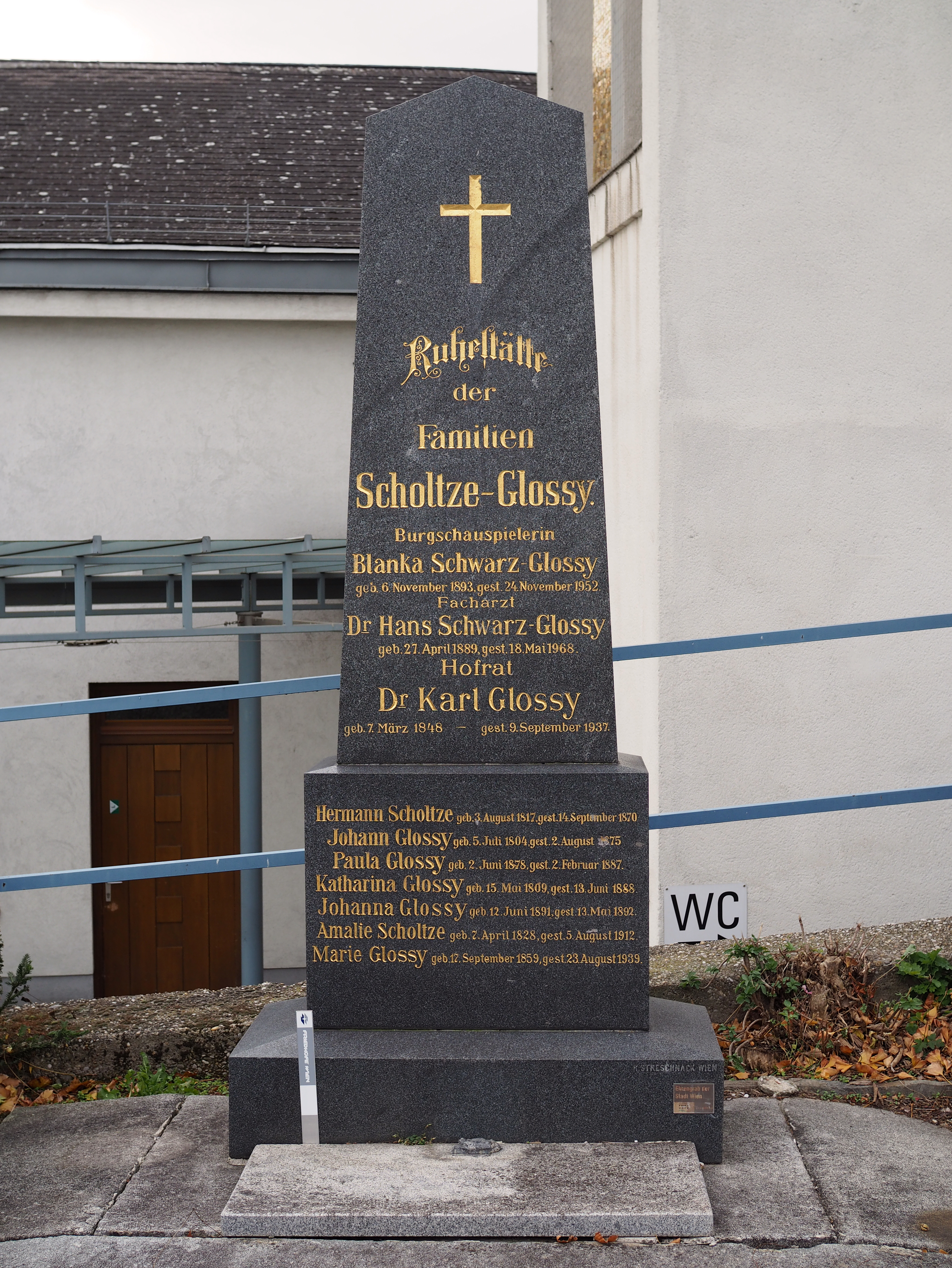 Family grave of the literary historian Karl Glossy (1848–1937) and the actress and graphic artist Blanka Glossy (1893–1952). Baumgarten Cemetery, 1140 Vienna